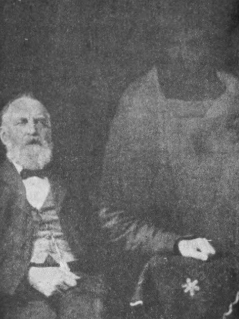 Spirit photograph of William Thomas Stead with Piet Botha, taken by Richard Boursnell.